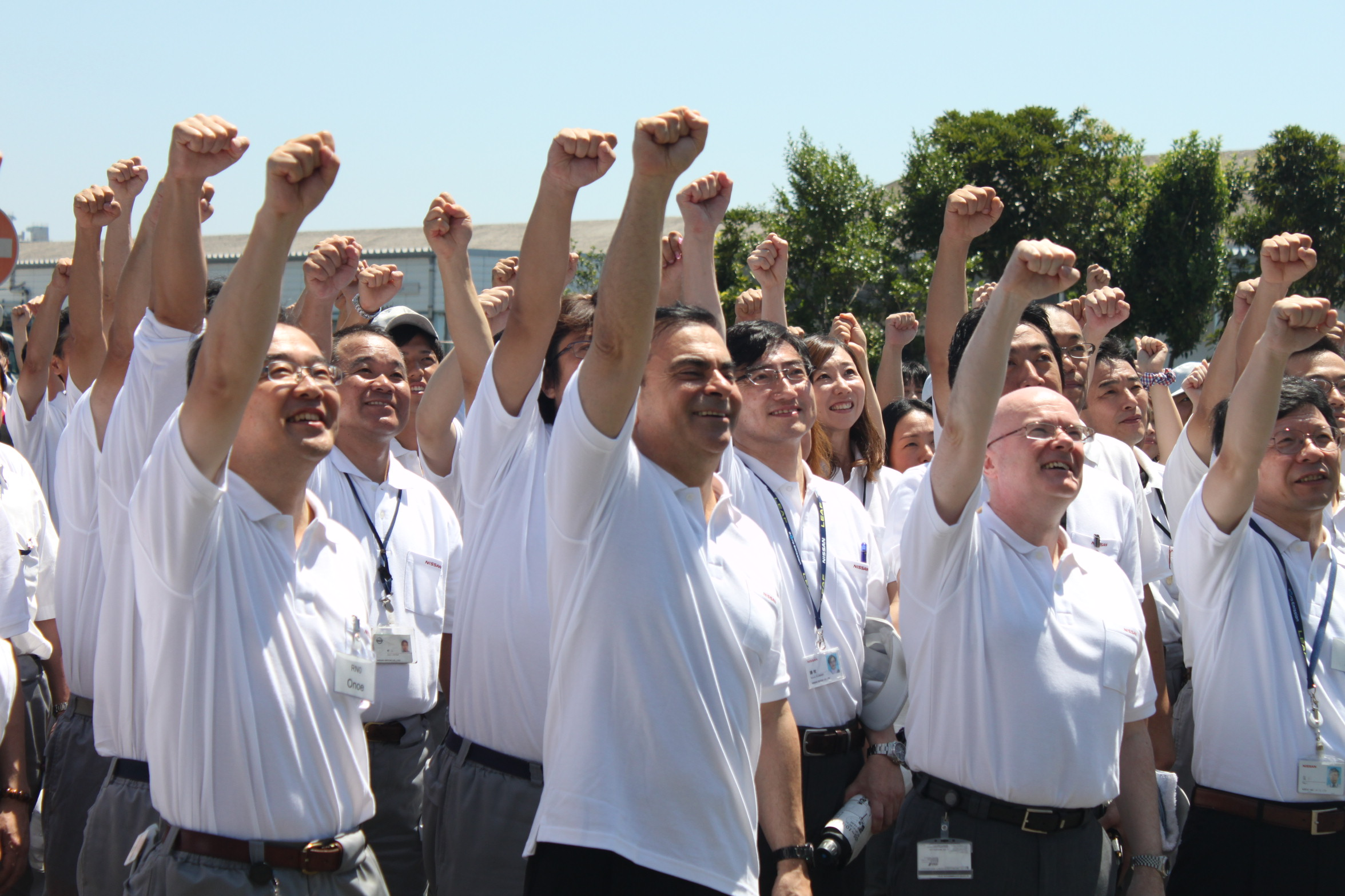 Carlos Ghosn at Nissan’s Honmoku Wharf, a logistics hub about 10 km southeast of Nissan’s global headquarters in Yokohama, July 16 2011. Picture by Bertel Schmitt